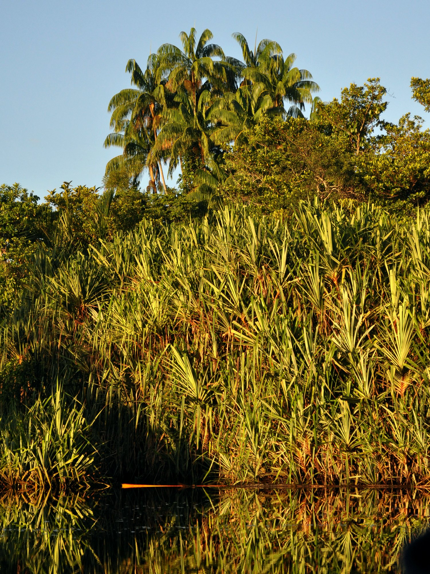 Rasau, Pandanus helicopus thickets, at the riverbank of Tempapan River, West Kalimantan, Indonesia. Higher palms at background is nibung, Oncosperma tigillarium.